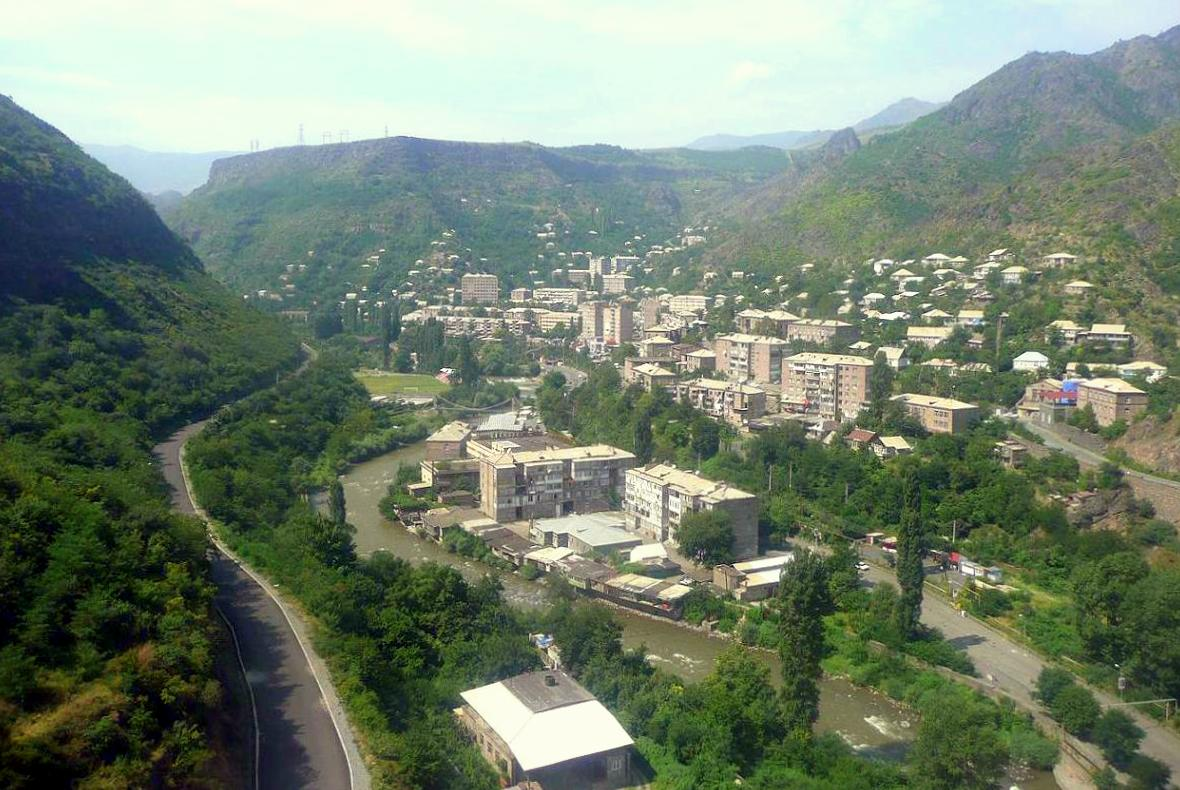 Alaverdi and Debed River, Lori Province, Armenia.